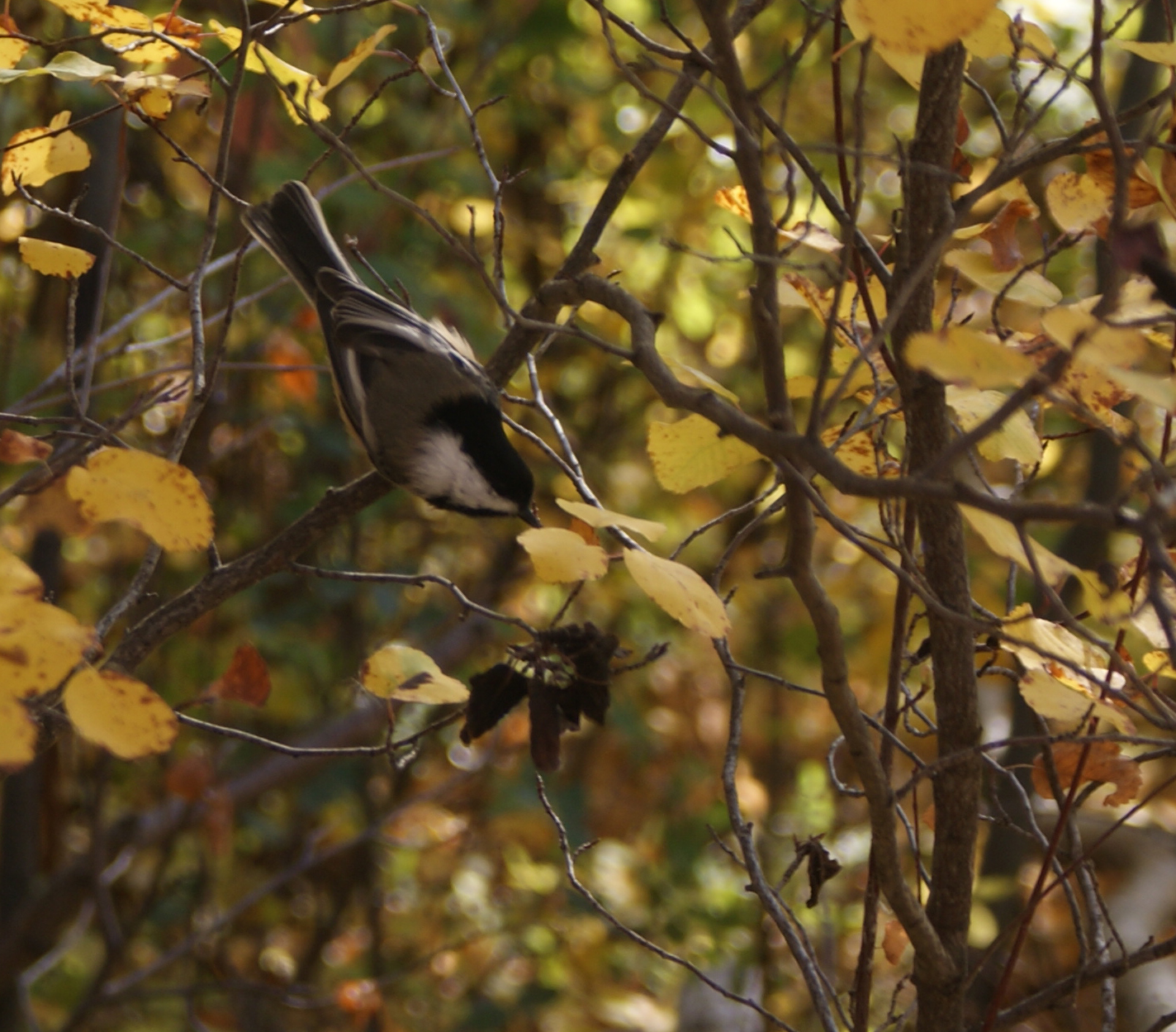 Black-capped Chickadee-Poecile atricapillus near South Saskatchewan River near Saskatoon in Chief Whitecap Park between Saskatoon golf and country club and Riverside golf club